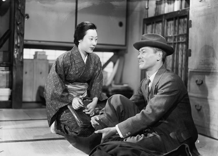 Chishū Ryū and Isuzu Yamada in Waga ya wa tanoshi (1951) directed by Noboru Nakamura